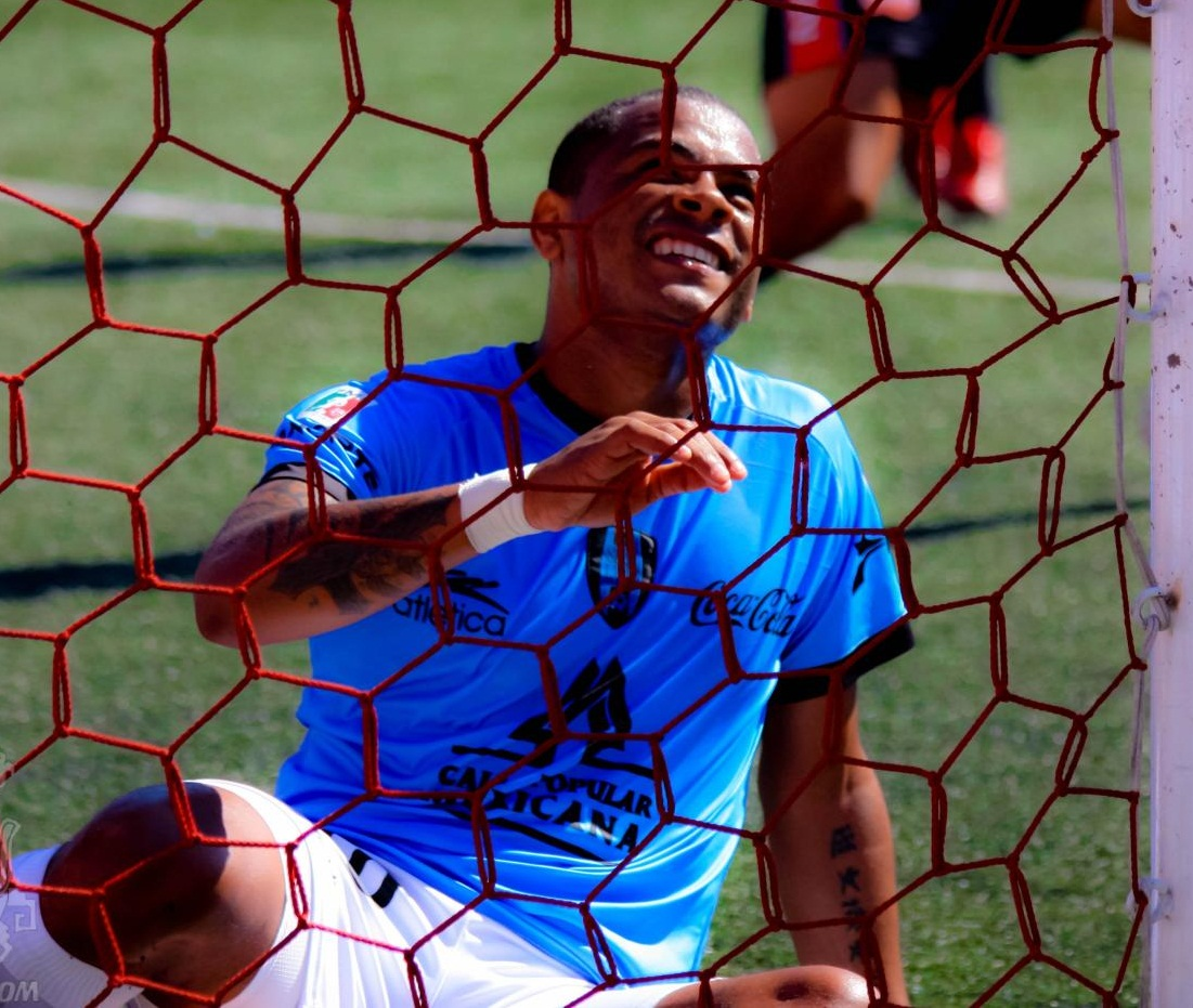 Peruvian player William Aguirre